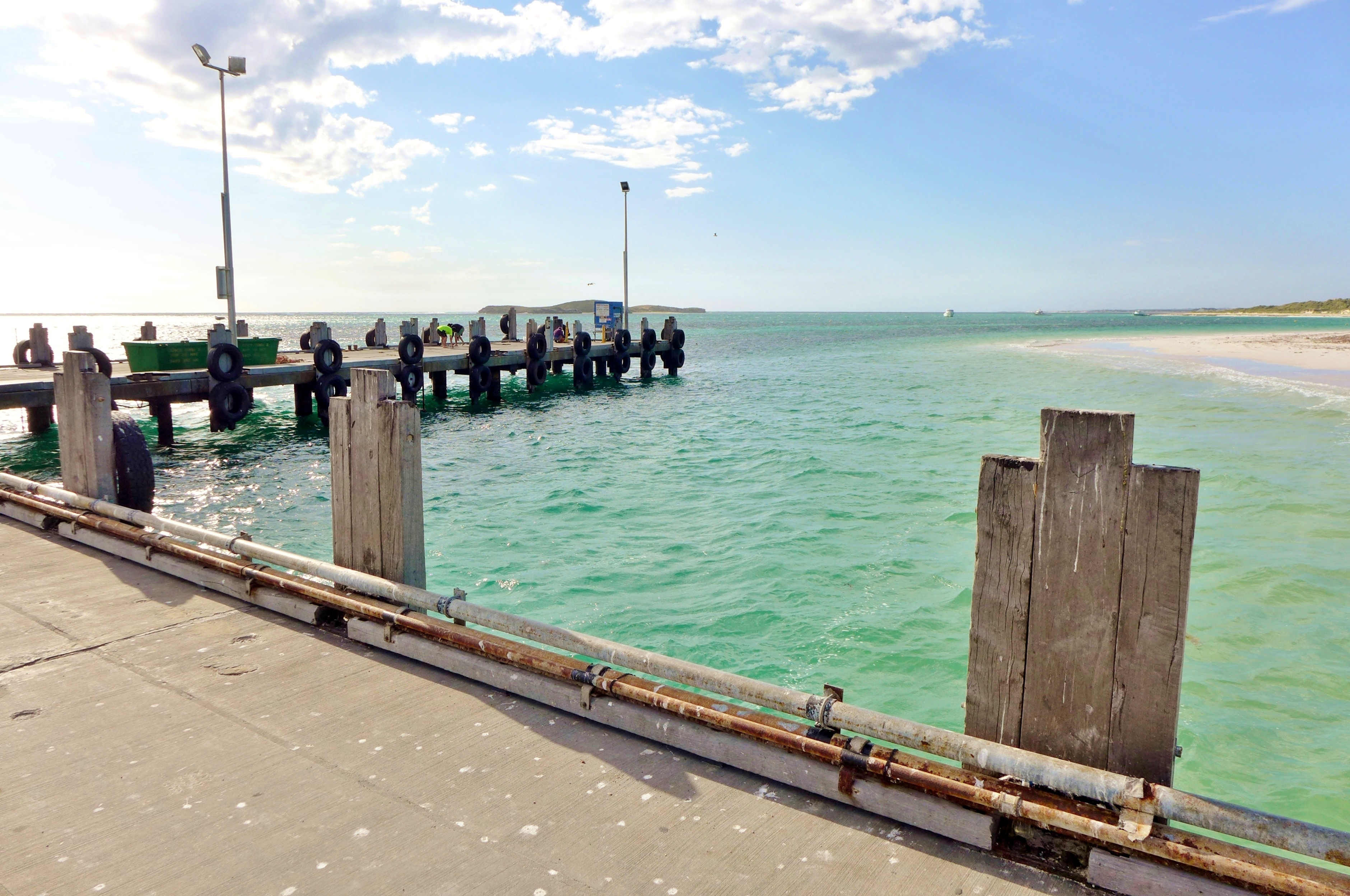 View from and of the jetty at Lancelin, Western Australia with Lancelin Island in the background.